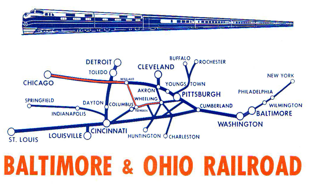 Baltimore and Ohio Railroad (B&O) system map, with the route of the Chicago Night Express (and the West Virginia Night Express on the same route) highlighted in orange by JGHowes.